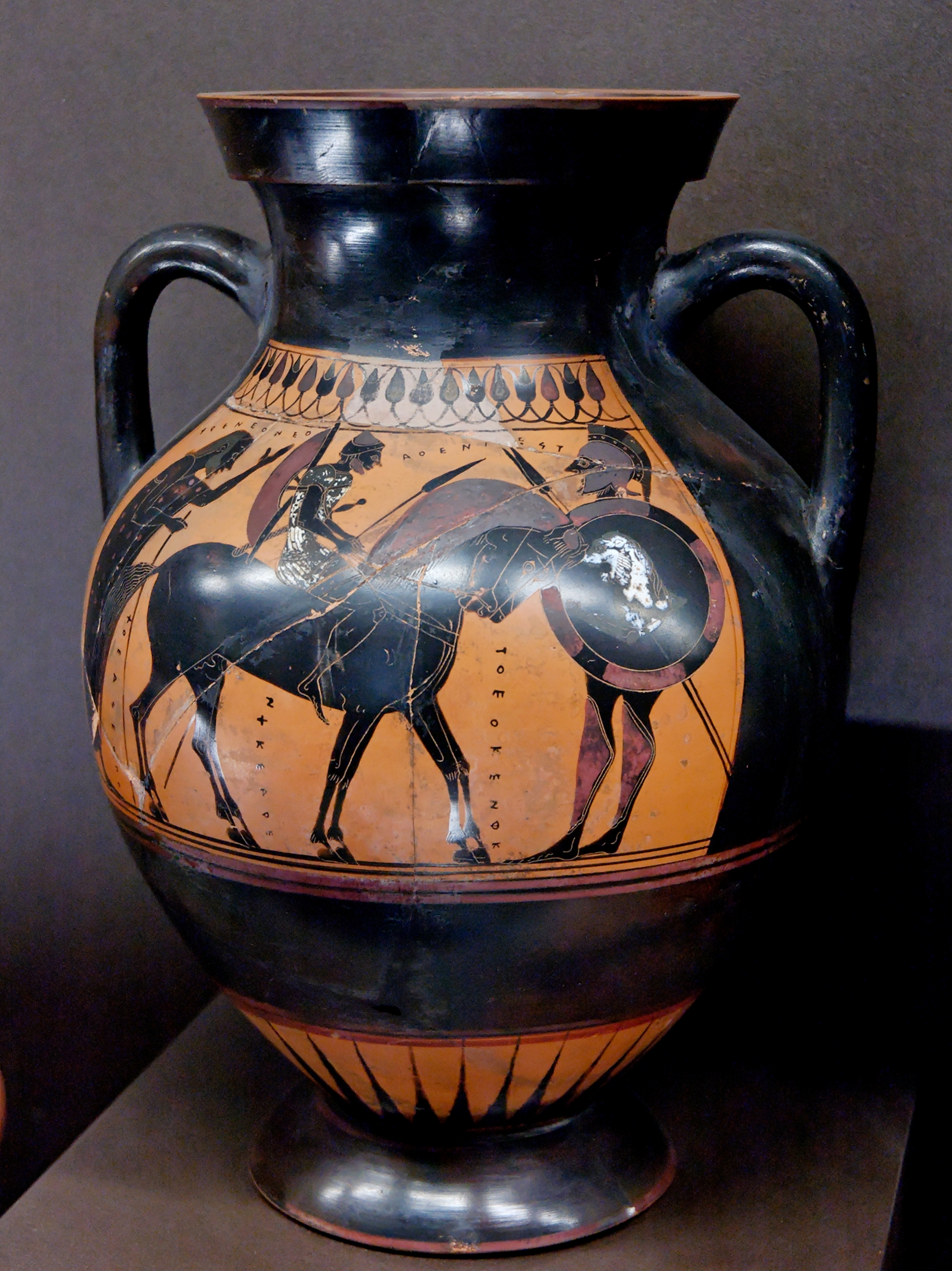 Warrior's departure. Attic black-figure amphora, ca. 550–540 BC. Found in Athens.